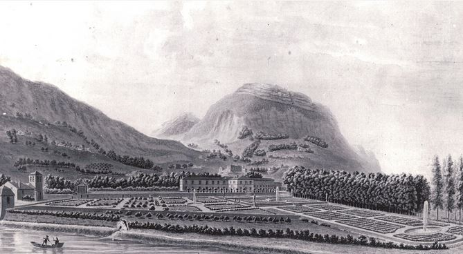 Gravure, collection Musée dauphinois